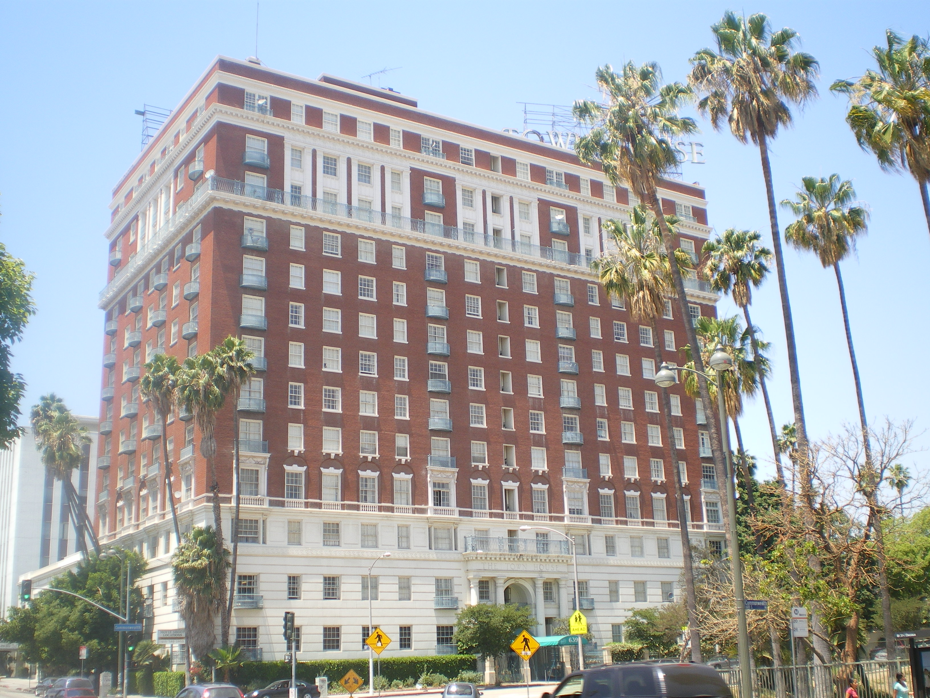 The Town House, landmark at 2959-2973 Wilshire Blvd. and 607-643 S. Commonwealth Ave., Los Angeles, California. On the National Register of Historic Places in Los Angeles, and a Los Angeles Historic-Cultural Monument. Object location34° 03′ 44″ N, 118° 17′ 05″ W